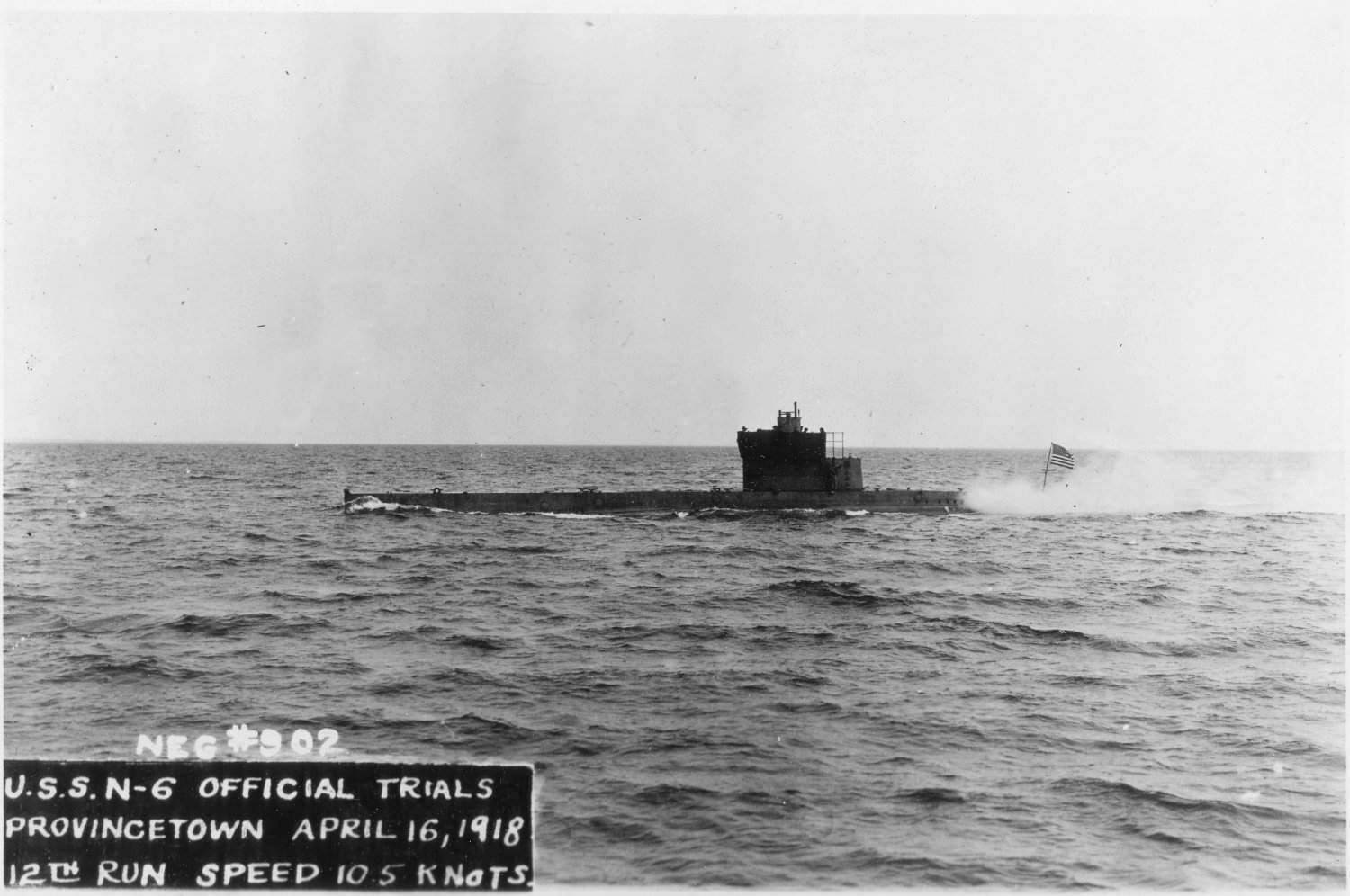 United States Navy submarine off Provincetown, Massachusetts, on the 12th run of her sea trials, during which she made .